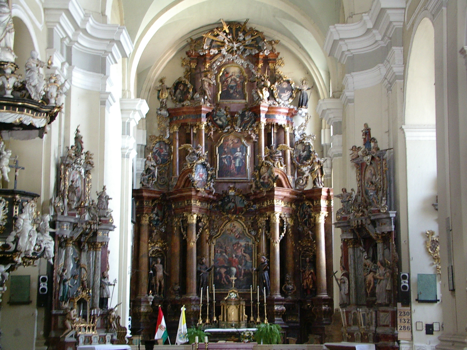 Holy Cross church. Main altar. See annotations